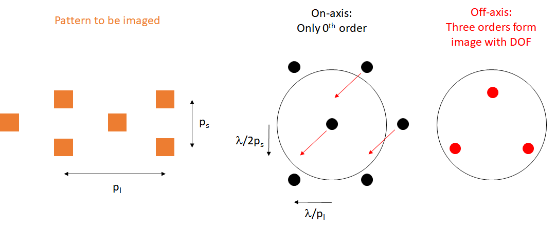 The purpose of off-axis illumination is shown through this imaging example. The illustrated pattern to be imaged has two pitches, a smaller vertical pitch ps and a larger horizontal one pl. On-axis light would not form any image due to only the zeroth order being passed through the final lens, whereas a targeted off-axis illumination (red) would shift the diffraction pattern so that three orders can form an image with good depth of focus (DOF), due to the symmetry of placement within the lens. The separation between orders is strictly λ/pl horizontally and λ/ps vertically, but every other order is skipped in the horizontal and vertical directions because the fundamental lattice vector is actually diagonal.